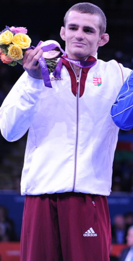 Rovshan Bayramov. Greco-Roman wrestling competition of the London 2012 Games